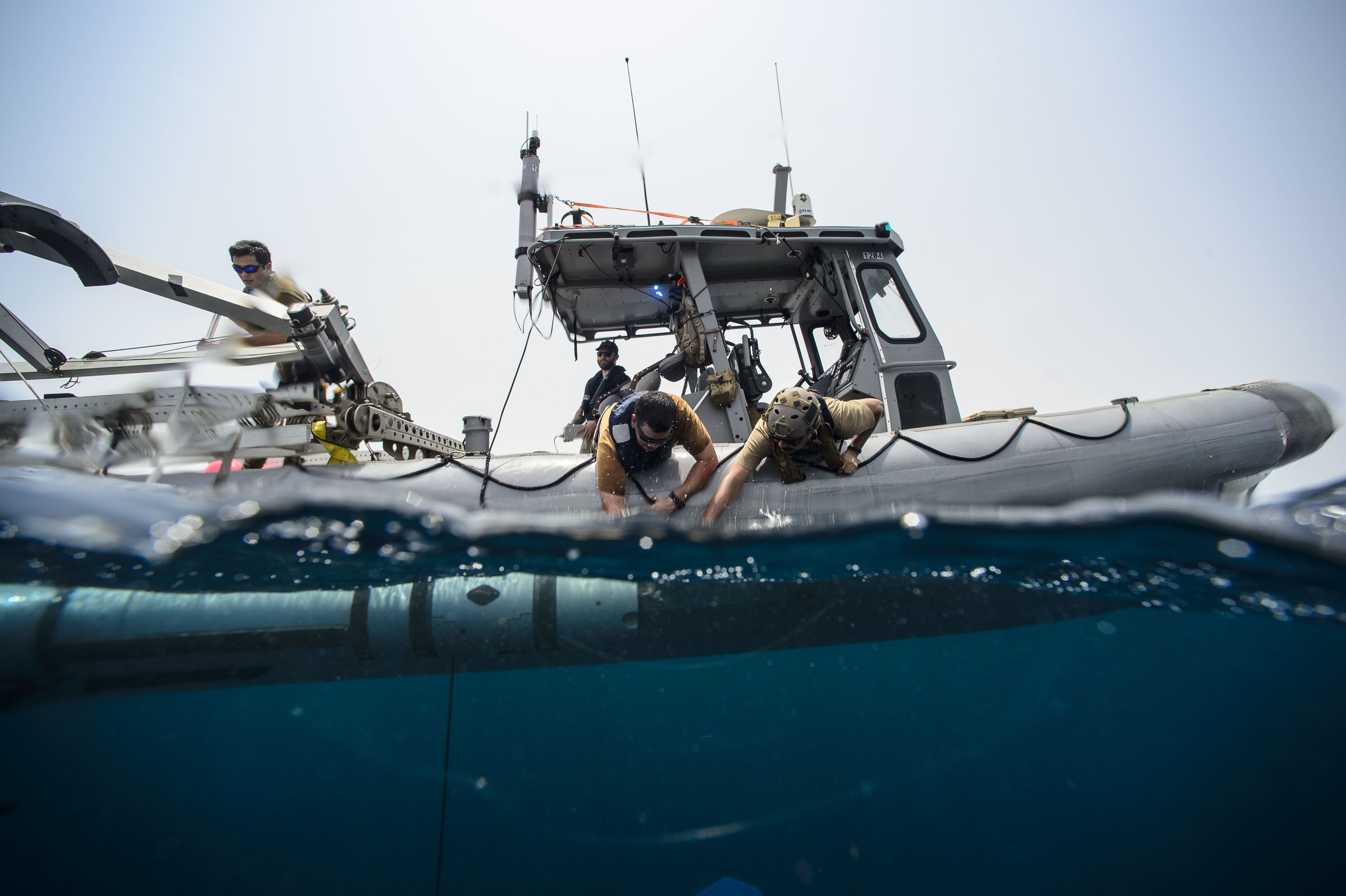 150729-N-RZ218-013 RED SEA (July 29, 2015) Sailors assigned to Commander, Task Group (CTG) 56.1, launch an Mk 18 Mod 2 unmanned underwater vehicle from an 11-meter rigid-hull inflatable boat. CTG 56.1 conducts mine countermeasures, explosive ordnance disposal, salvage diving, and force protection operations throughout the U.S. 5th Fleet area of operations.